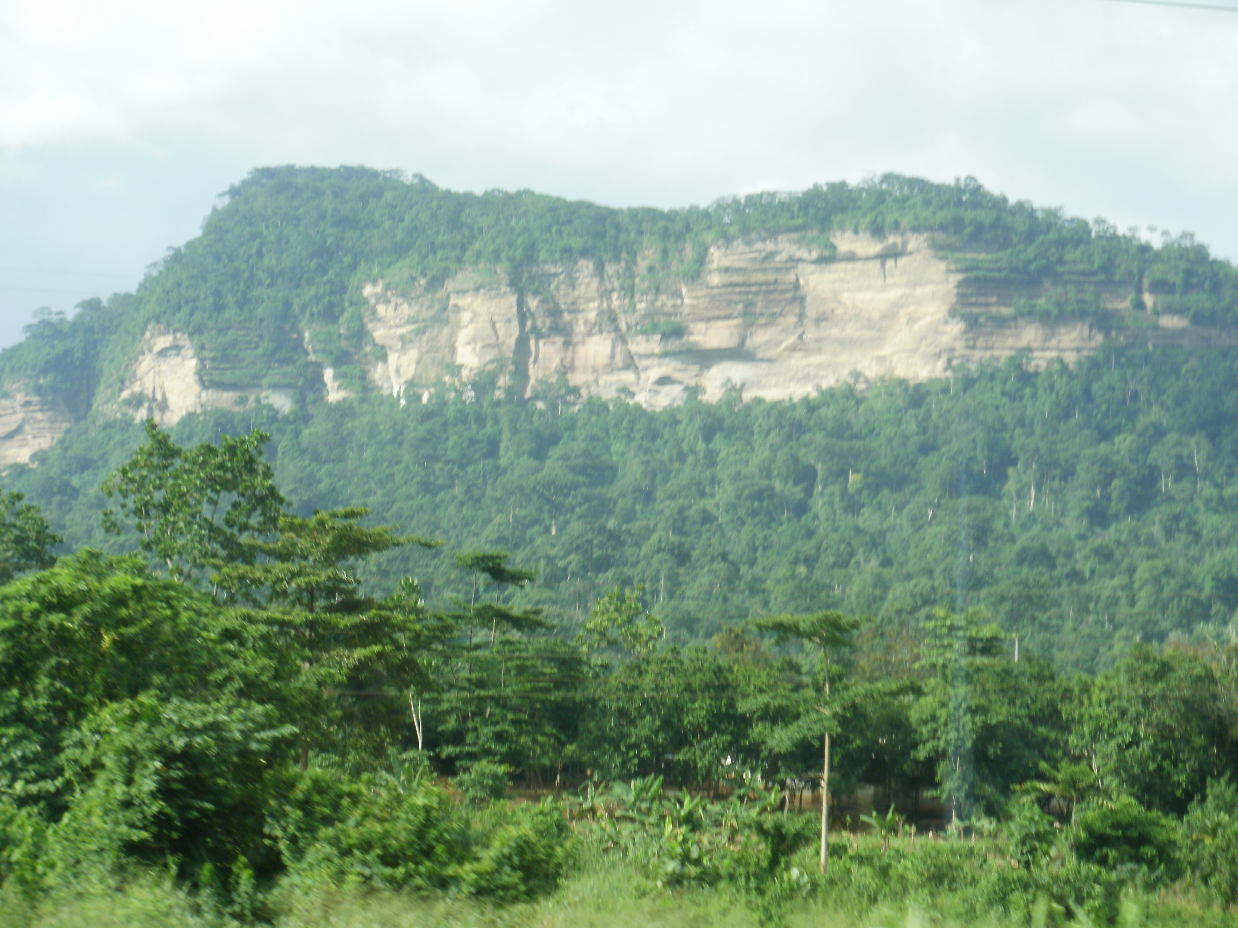 Kwahu mountain steep cliffs are used for paragliding